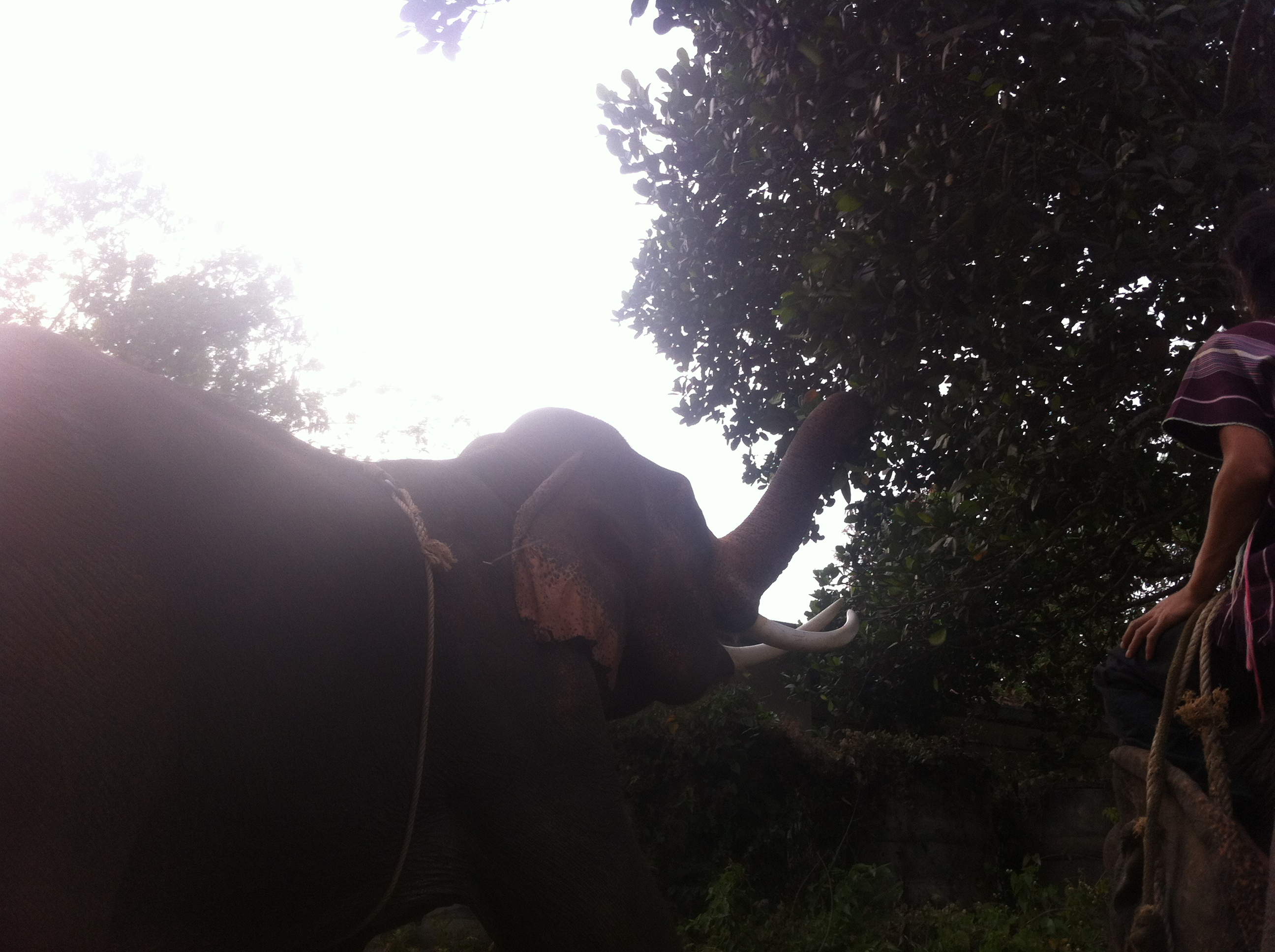 A bull elephant at Patara Elephant Farm near Chiang Mai, Thailand